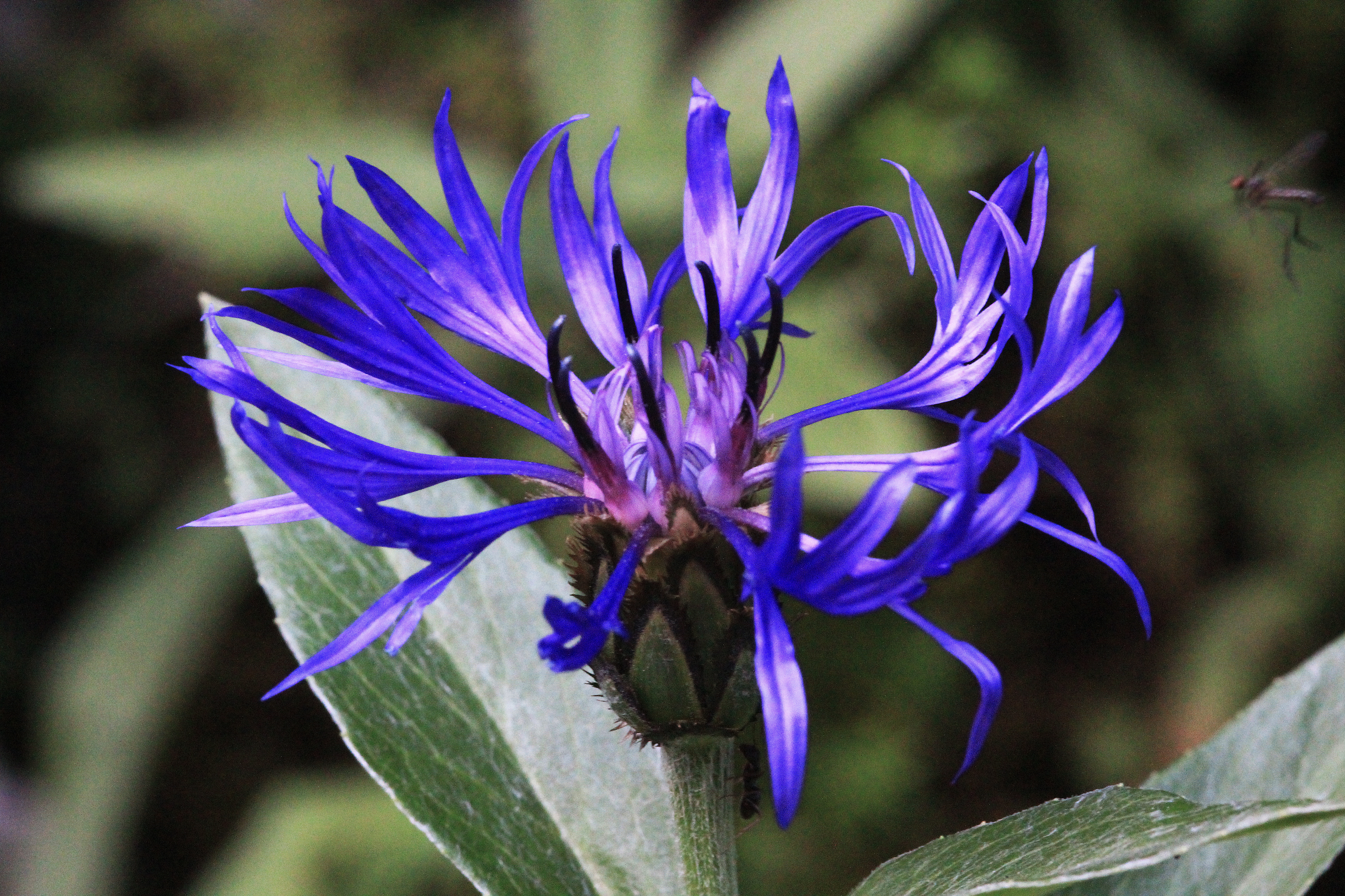 mountain cornflower